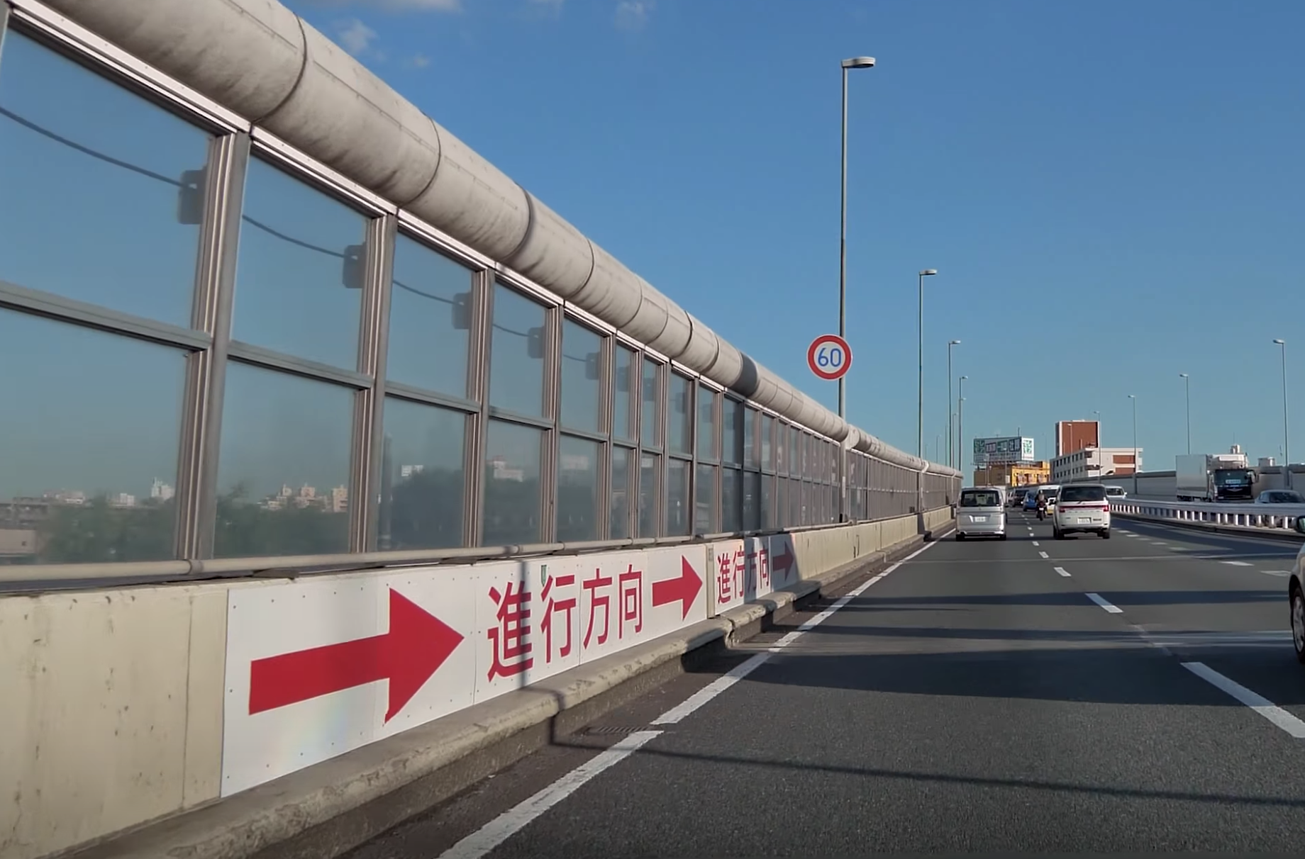 Shutoko's Takaido Exit